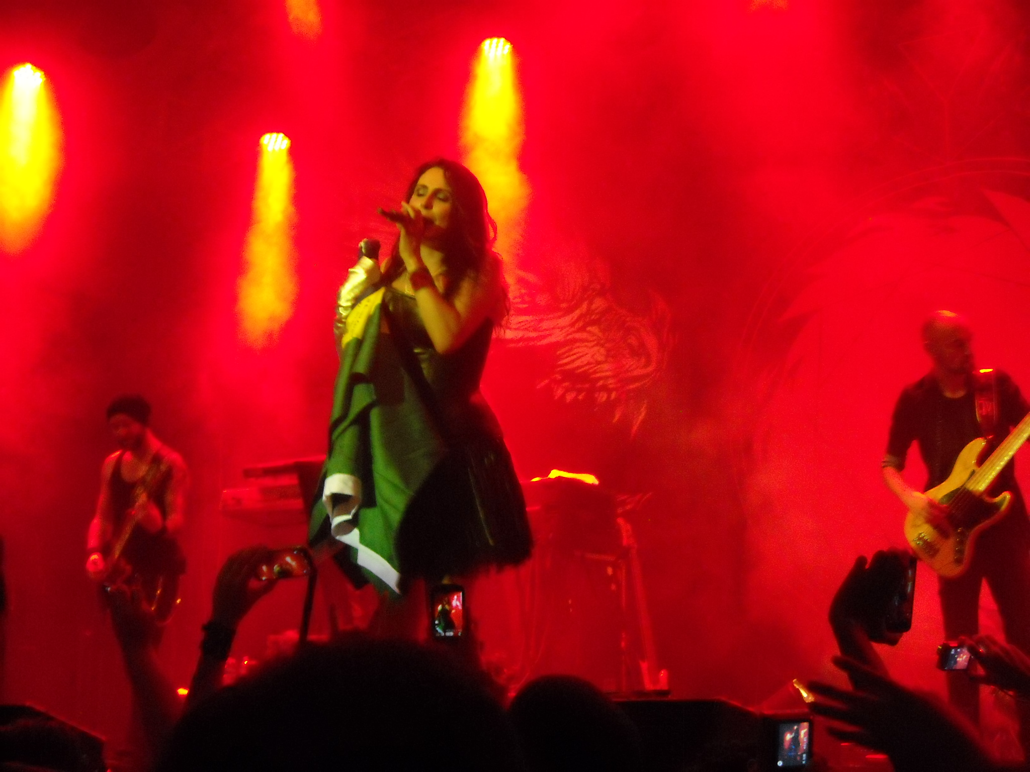 The file shows the band Within Temptation playing at the Circo Voador, in Rio de Janeiro, during the South American leg of the Hydra World Tour.